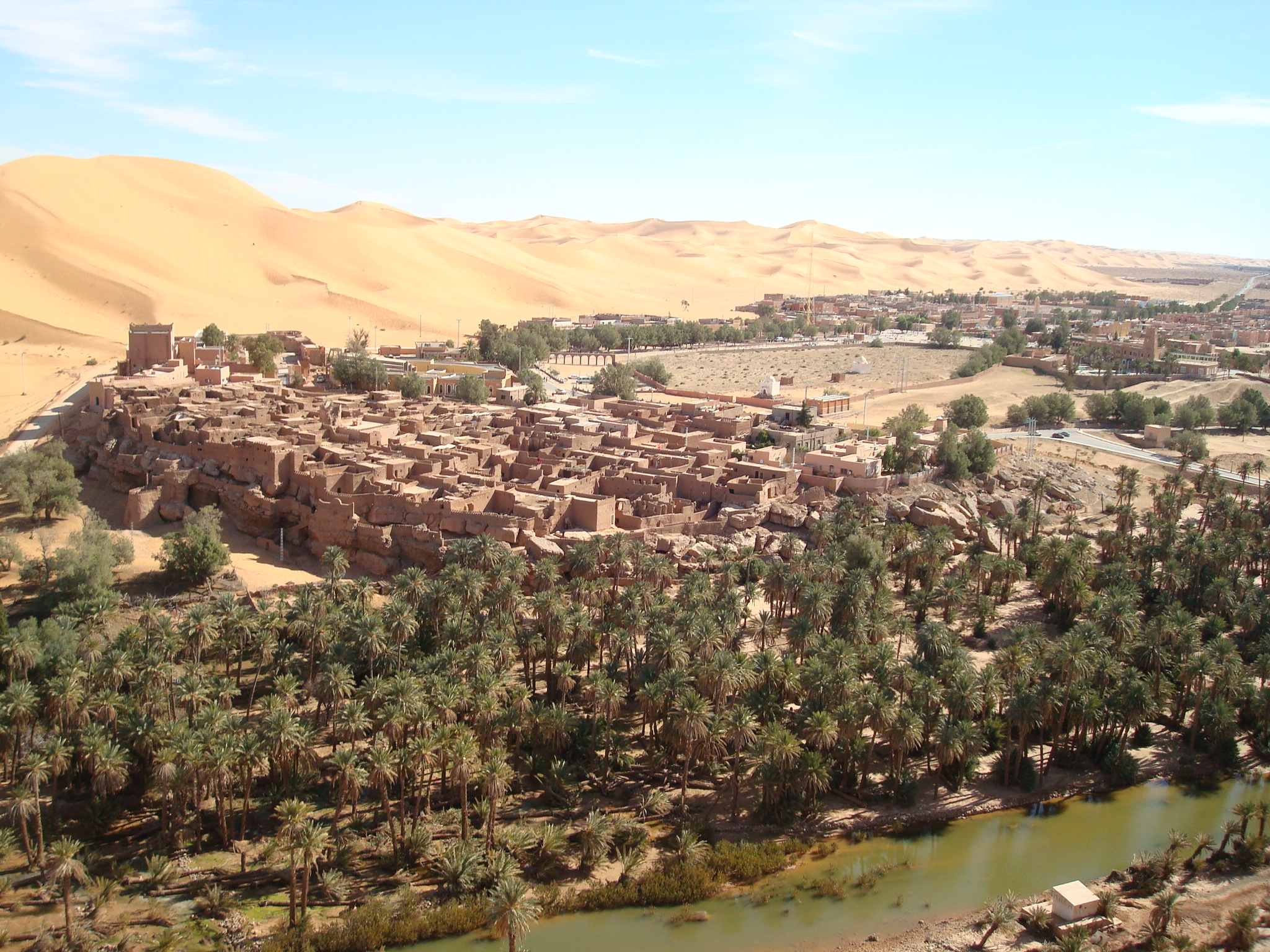 View of the town of Taghit